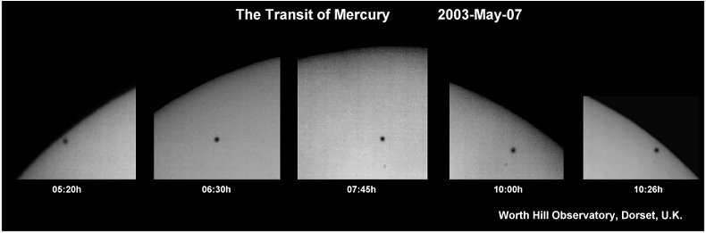 Transit of Mercury, May 7th, 2003